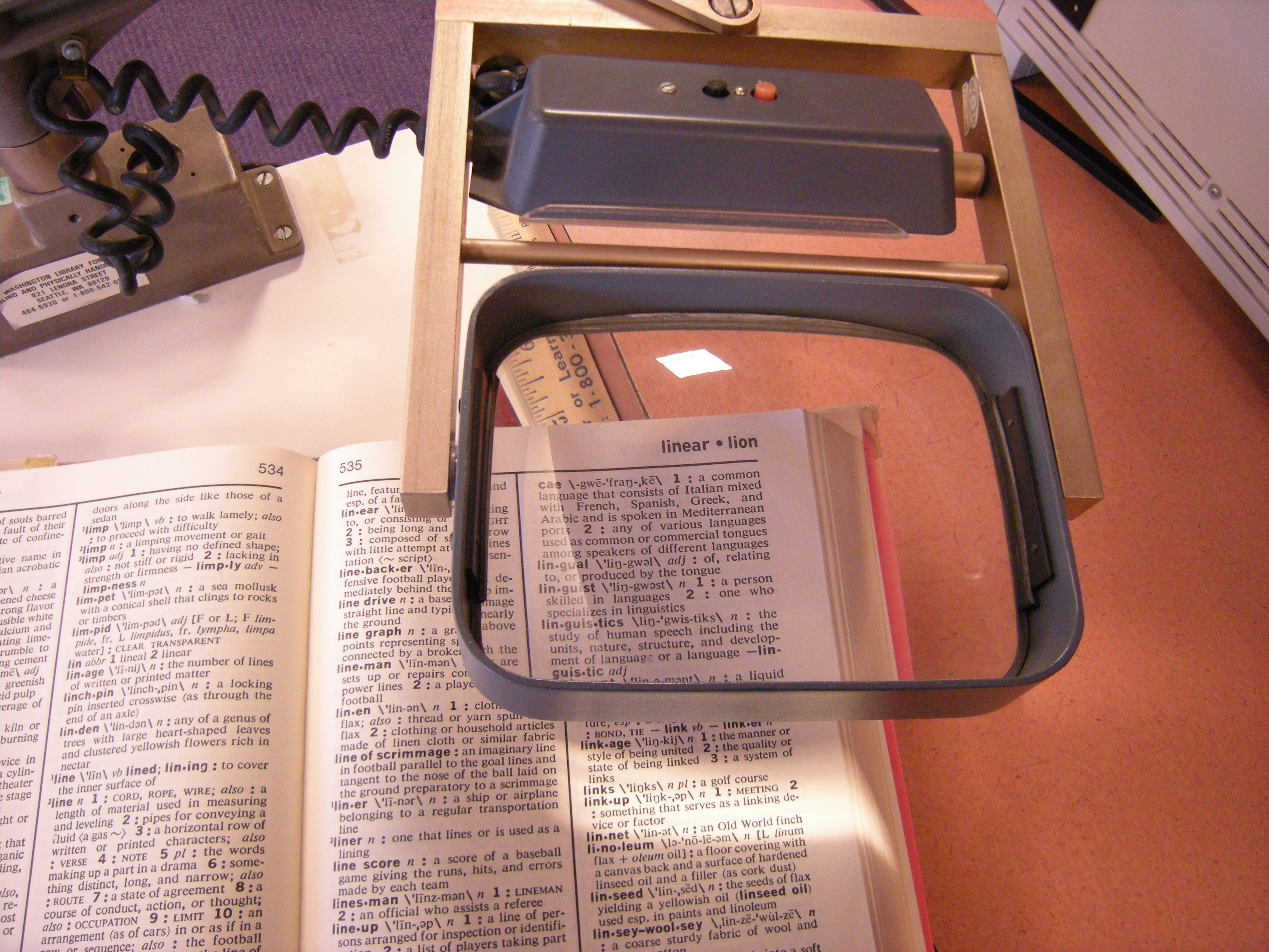 Looking at a dictionary through a magnifying glass, Washington Talking Book & Braille Library, 2021 Ninth Avenue, Seattle, Washington, USA.